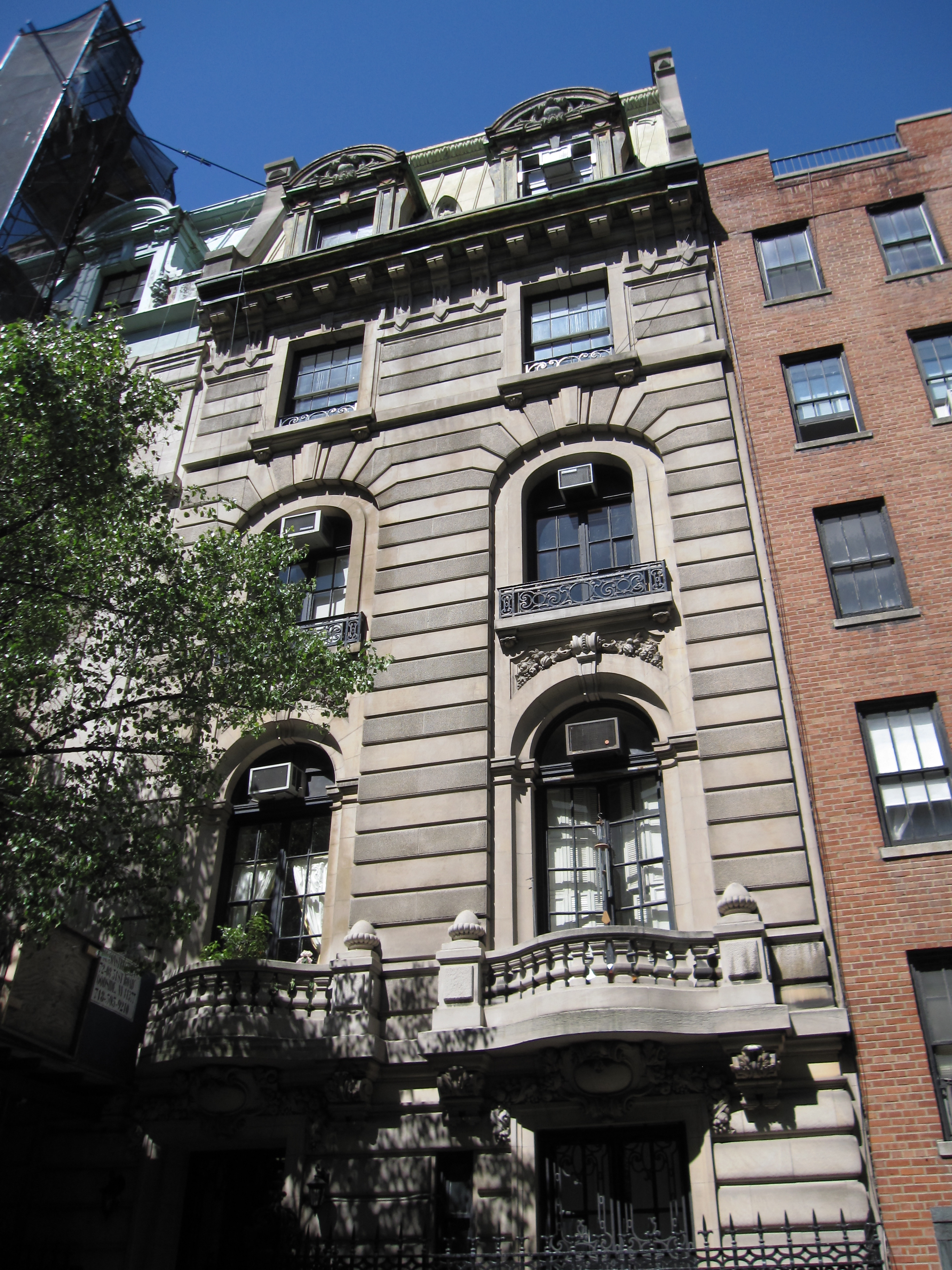 7 East 75th Street, house of "The Nanny".